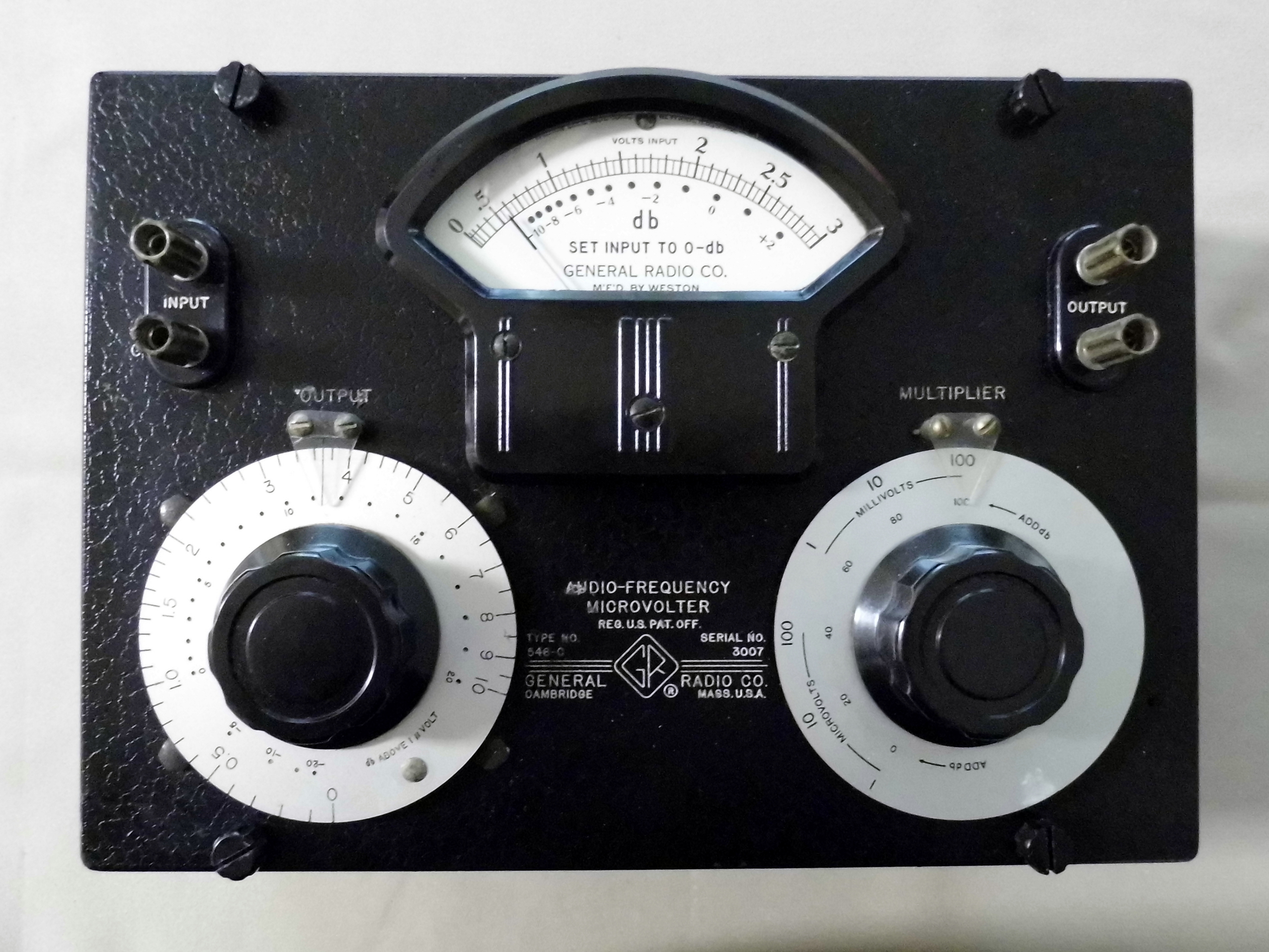 Vintage Audio-Frequency Microvolter, General Radio Co., Cambridge Massachusetts